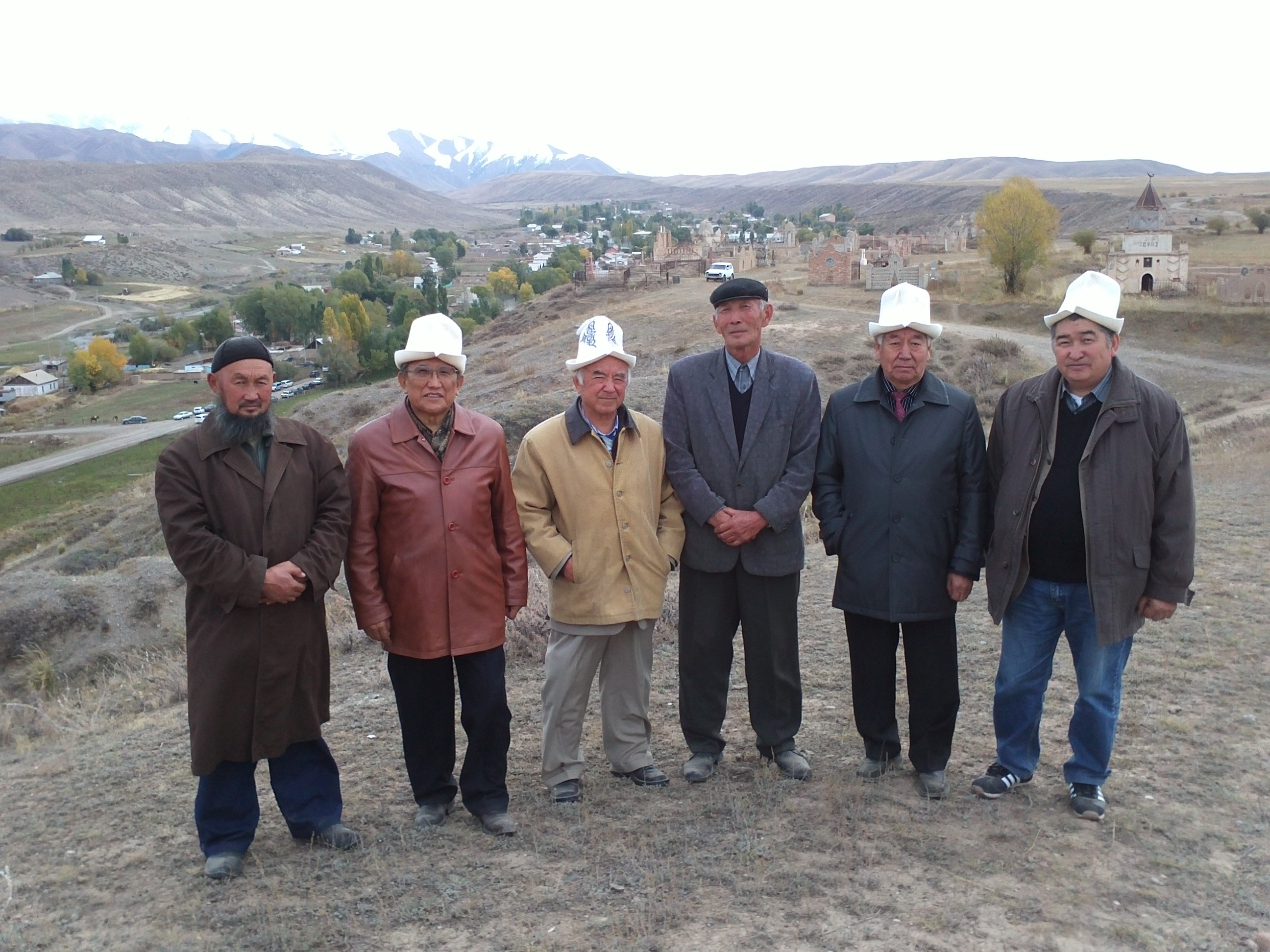 A Kyrgyz writer Kenesh Jusupov and General Beishe Moldogaziev together with their villagers at the On-Archa village in Naryn district. Naryn region of Kyrgyzstan, 04 October 2012.